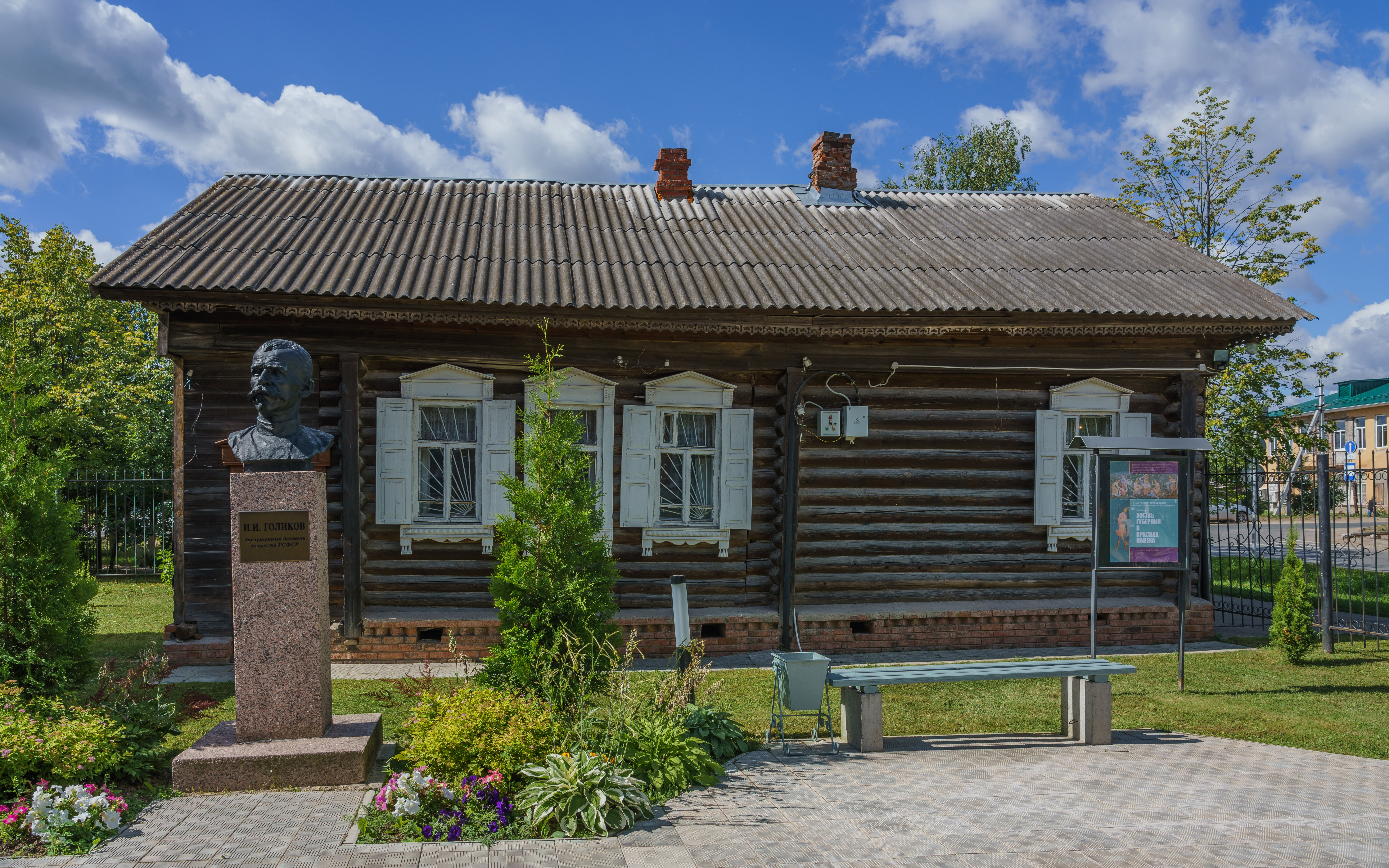 Building at Lenina Street, 2 in Palekh, Ivanovo Oblast, Russia.